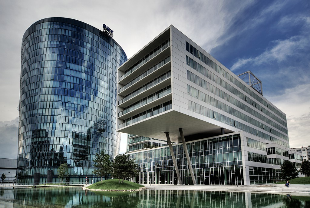 OMV Vienna